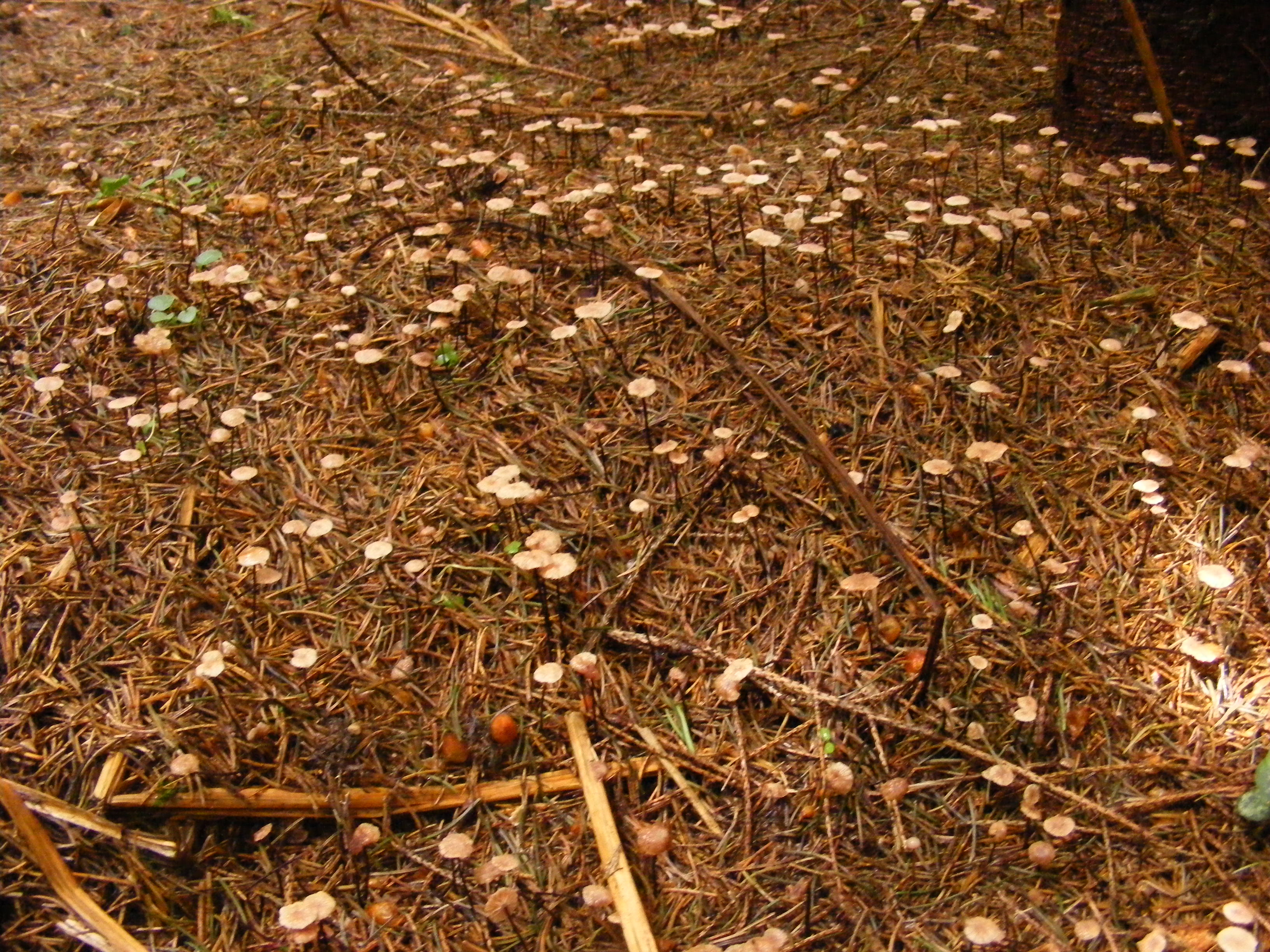 Marasmius scorodonius